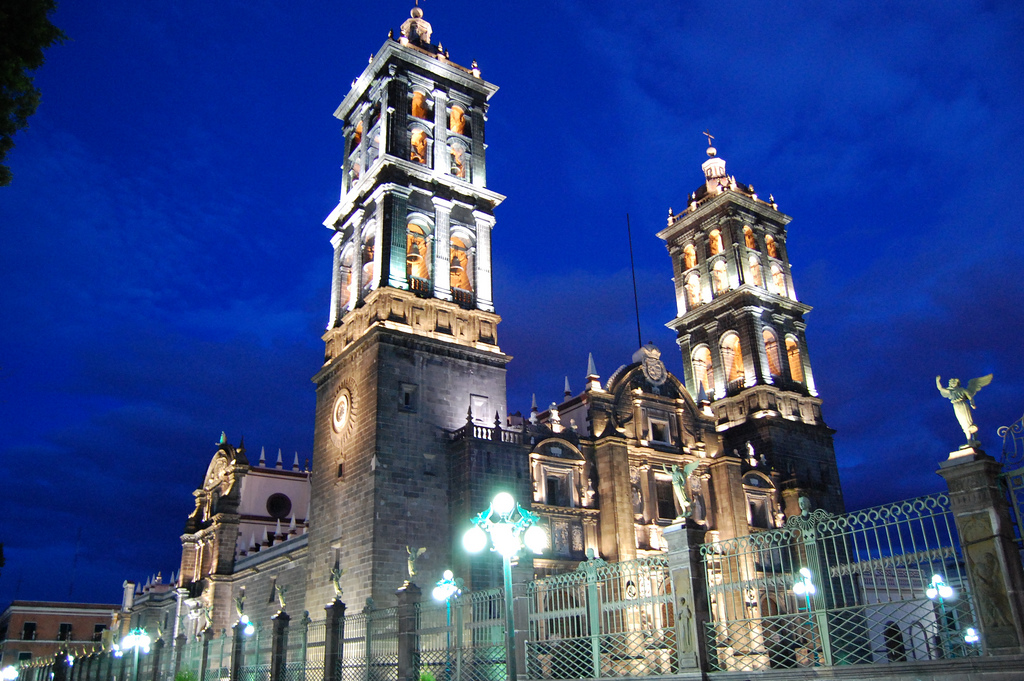 Puebla Cathedral